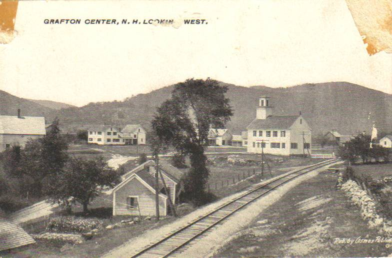 Grafton Center, looking west.